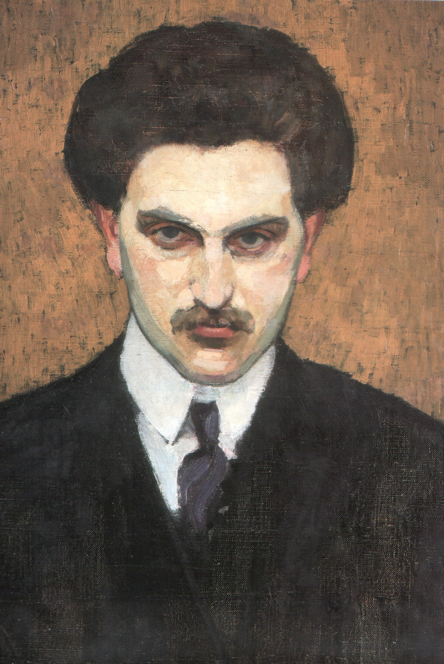 Mikhail Tsetlin (1882— 1945) — Russian poet, writer, editor, known under pseudonym Amari